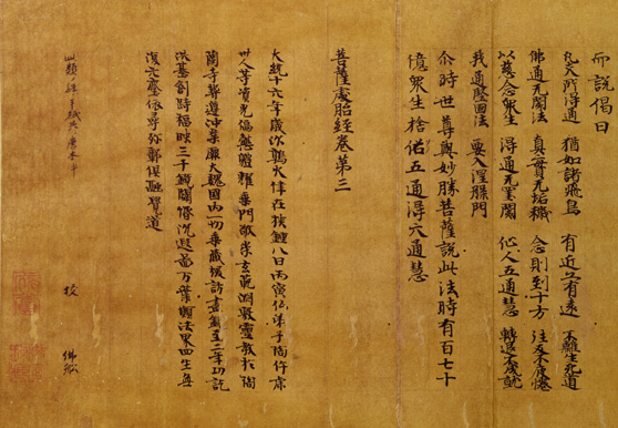 Sutra of the Bodhisattva's Dwelling in the Womb (菩薩処胎経, Bosatsu shotai-kyō)